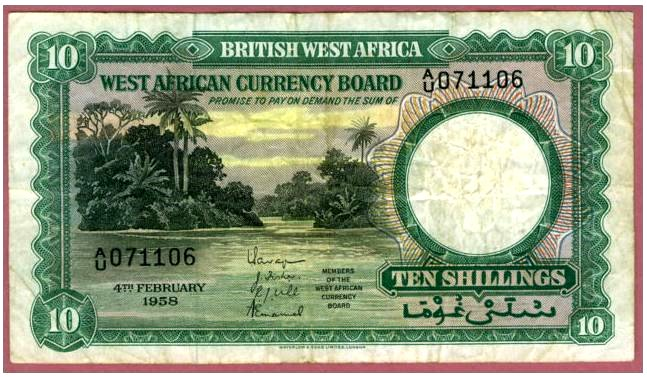 1958 10 shilling banknote of the West African Currency Board.